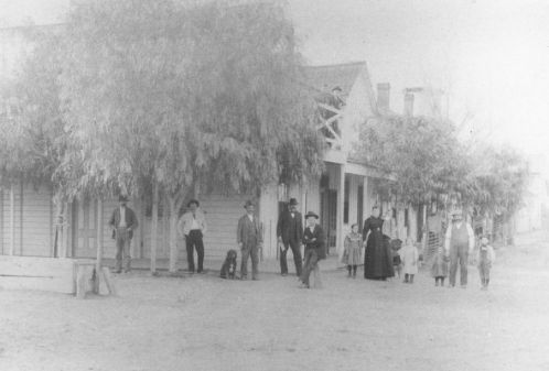 View of the west wall of the Central Hotel looking east along 10th street 1898.